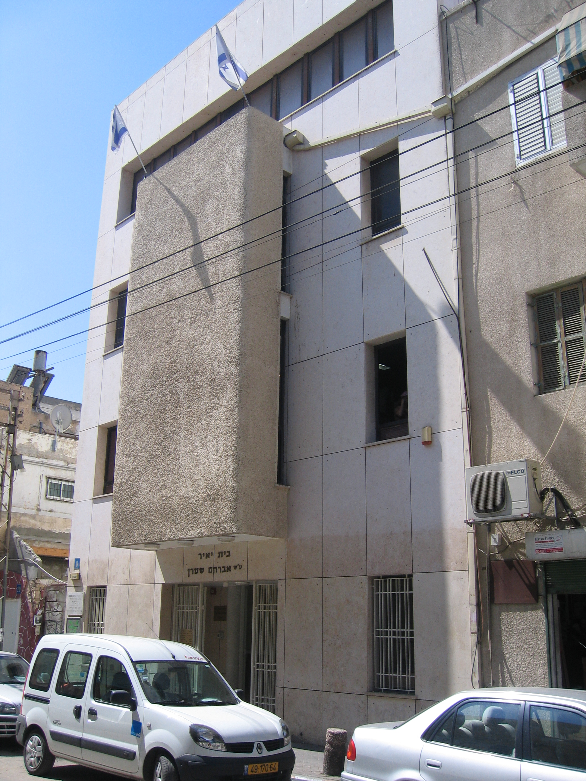 "Beit Yair" (Avraham Stern), Florentin, Tel Aviv-Yaffo